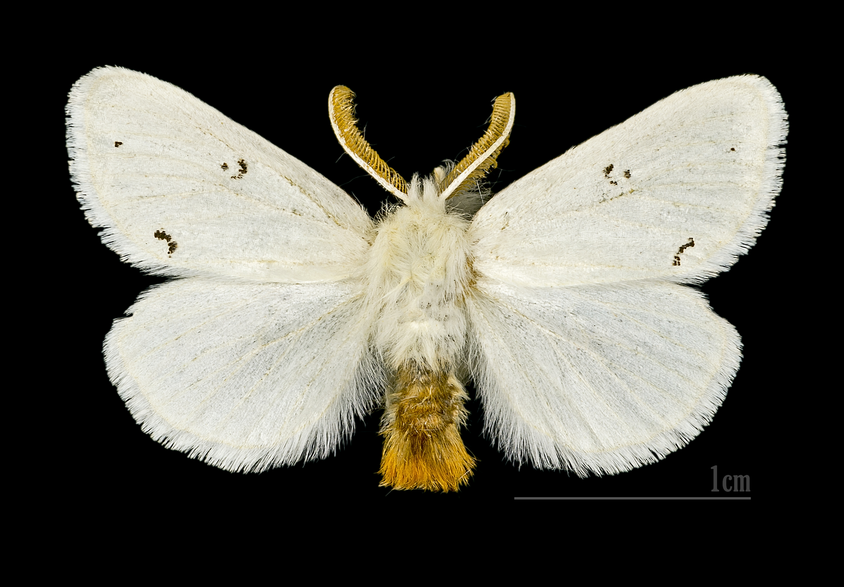 brown-tail. Dorsal side Face dorsale